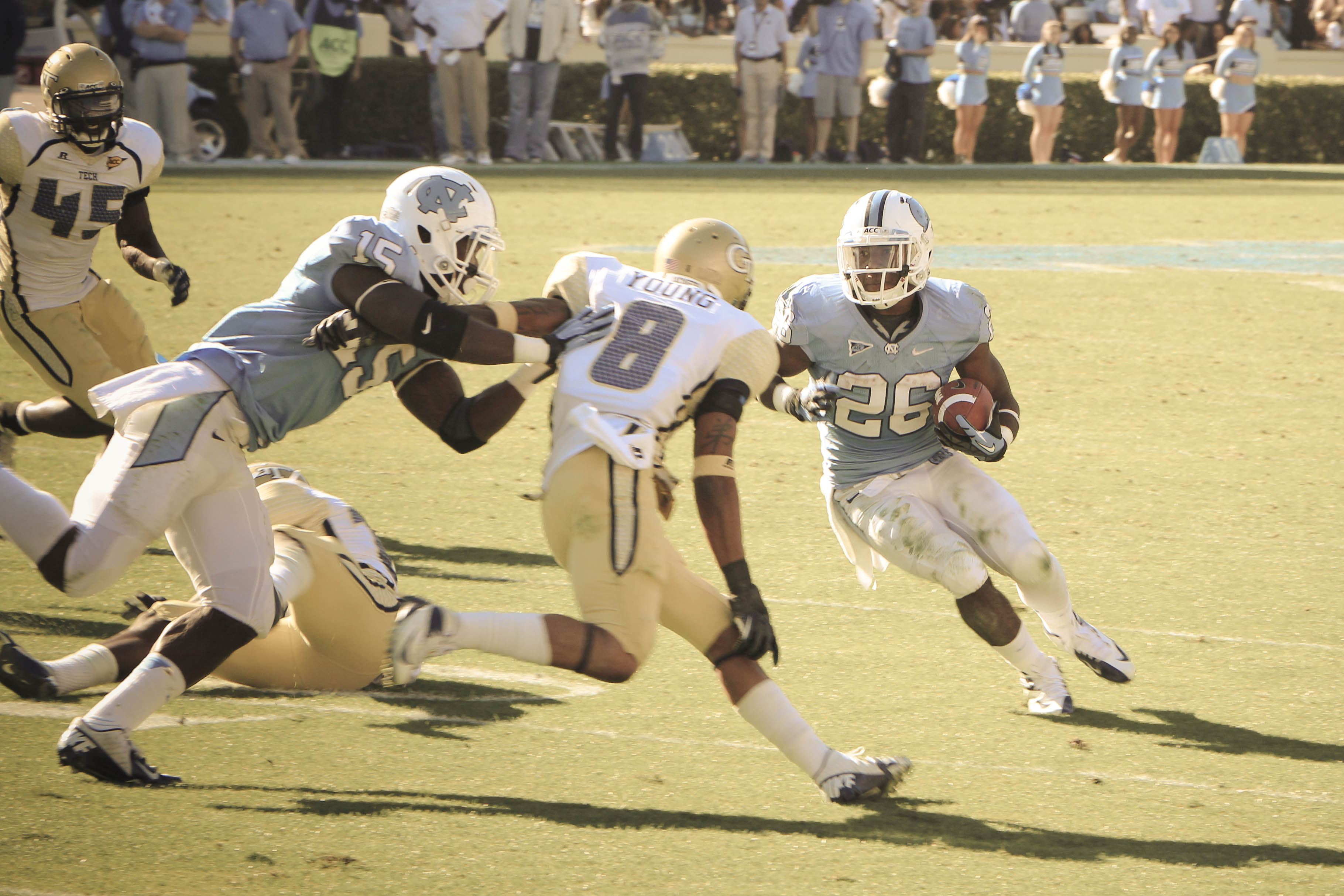 Giovani Bernard carrying the ball, 2012